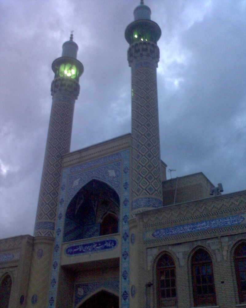 ImamZade Jafar, pishva